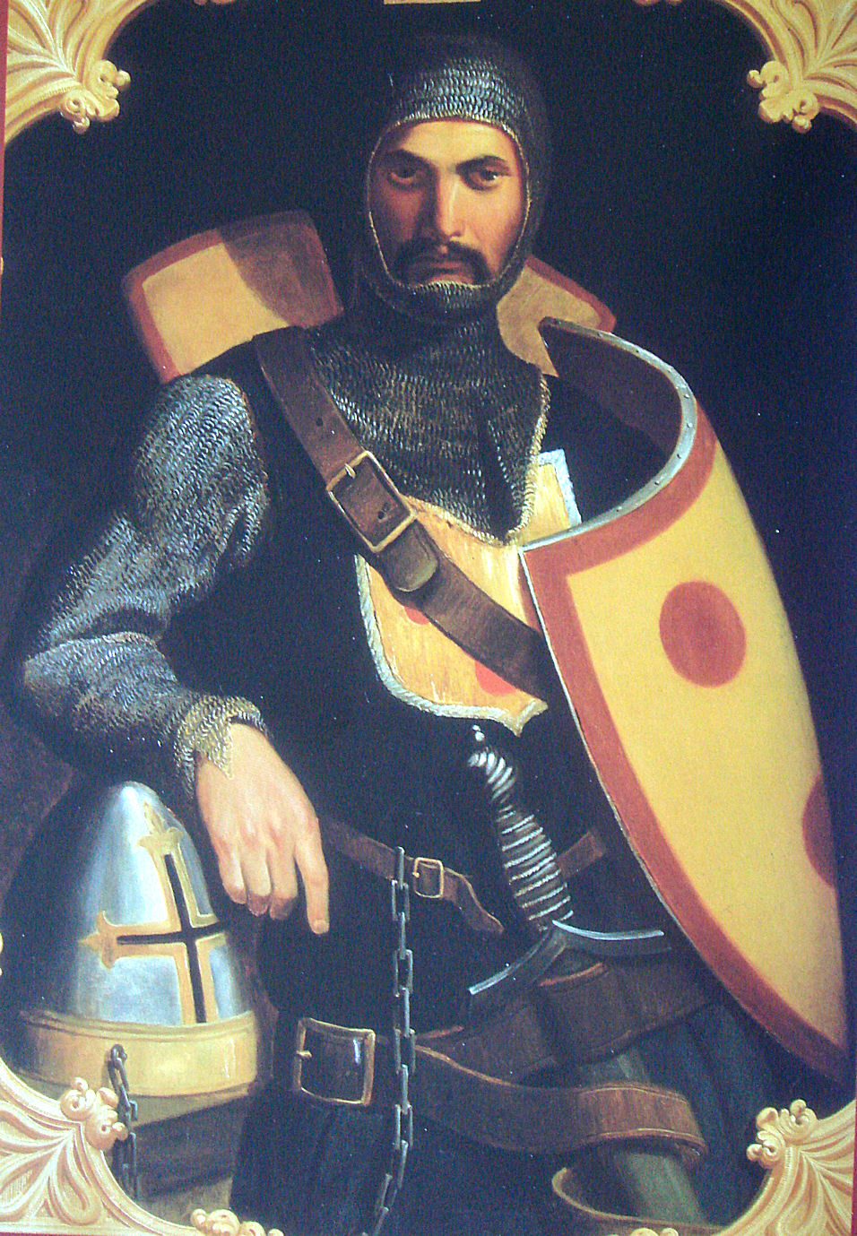 Baldwin of Bourcq, count of Edessa and king of Jerusalem (Baldwin II)